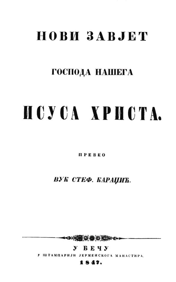 Front page of the Vuk Stefanović Karadžić's translation of the New Testament into Serbian language, published in Vienna in 1847.